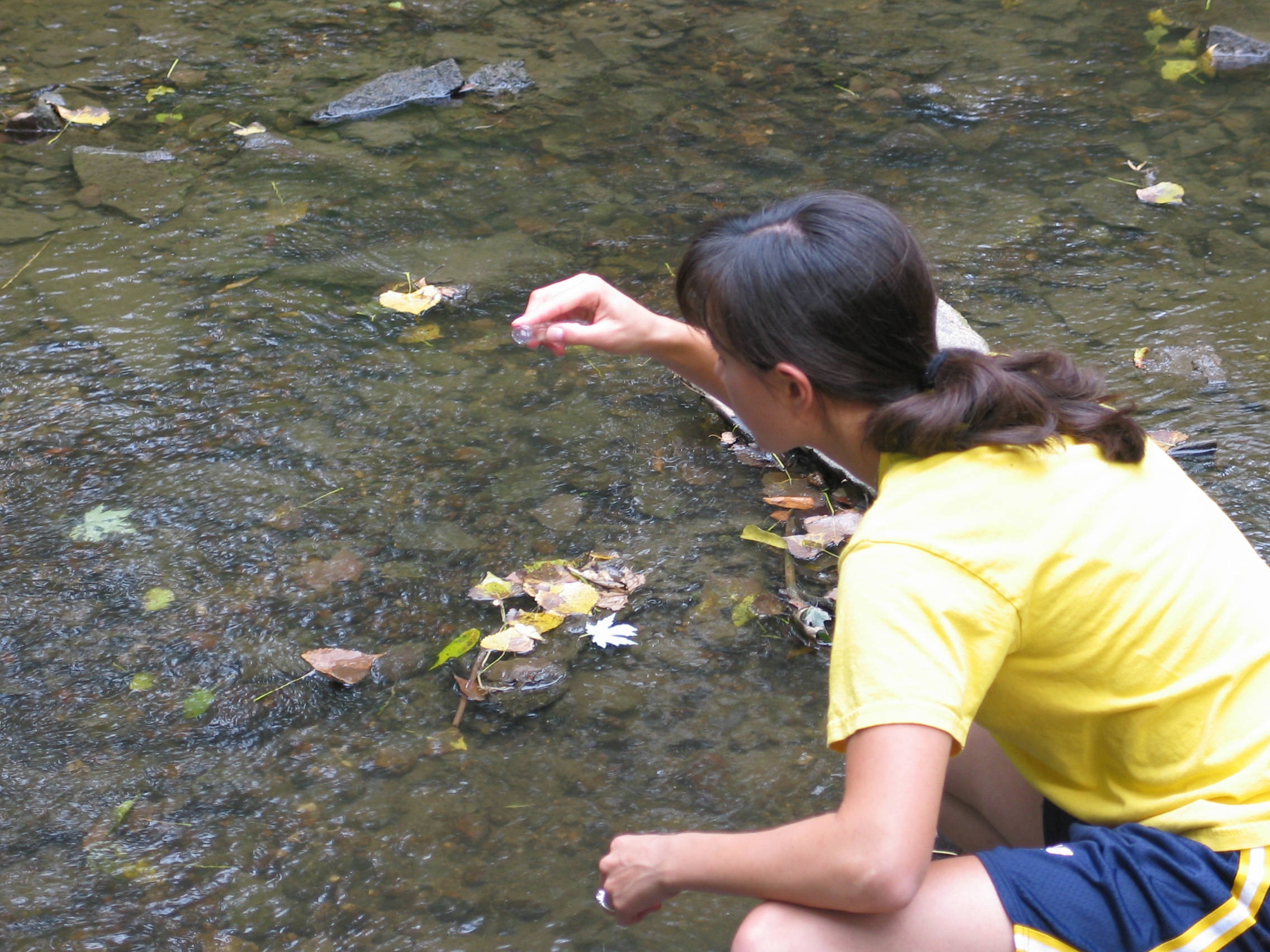 Environmental Science student sampling water from a stream.